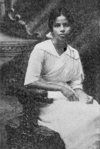 A young, dark-skinned South Asian woman, seated in an ornate chair, wearing a white dress. Her dark hair is parted center and dressed back and low at the nape. She is looking directly at the camera and not smiling.